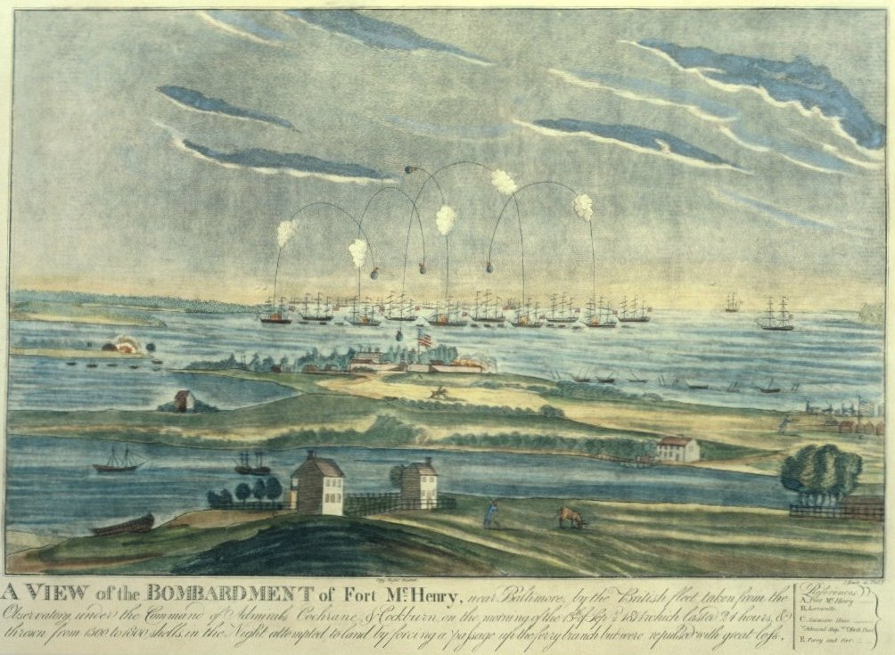 The caption reads "A VIEW of the BOMBARDMENT of Fort McHenry, near Baltimore, by the British fleet taken from the Observatory under the Command of Admirals Cochrane & Cockburn on the morning of the 13th of Sept 1814 which lasted 24 hours & thrown from 1500 to 1800 shells in the Night attempted to land by forcing a passage up the ferry branch but were repulsed with great loss."